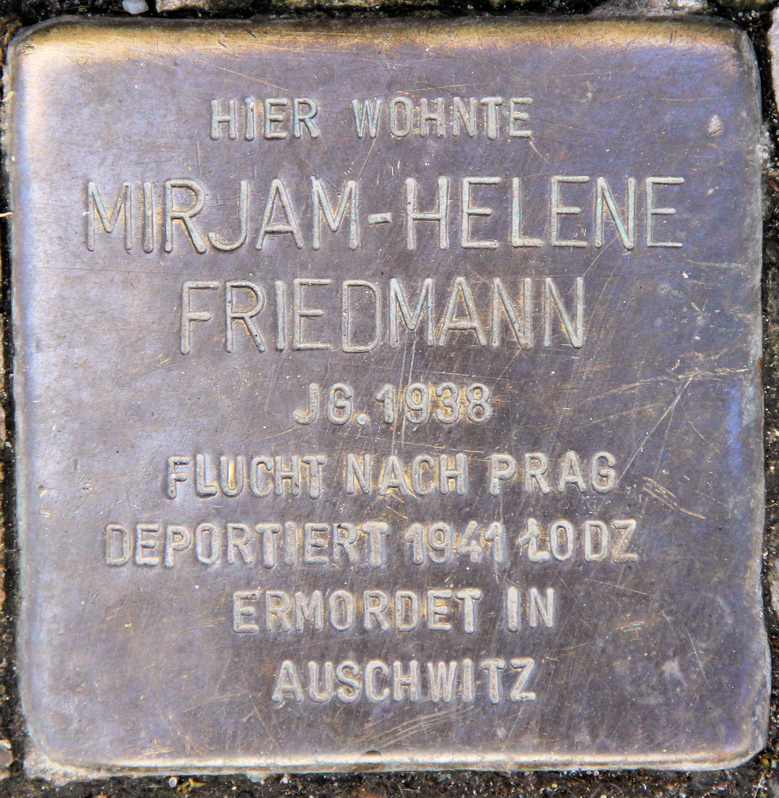 Stolperstein (stumbling block), Mirjam-Helene Friedmann, Paderborner Straße 9, Berlin-Wilmersdorf, Germany